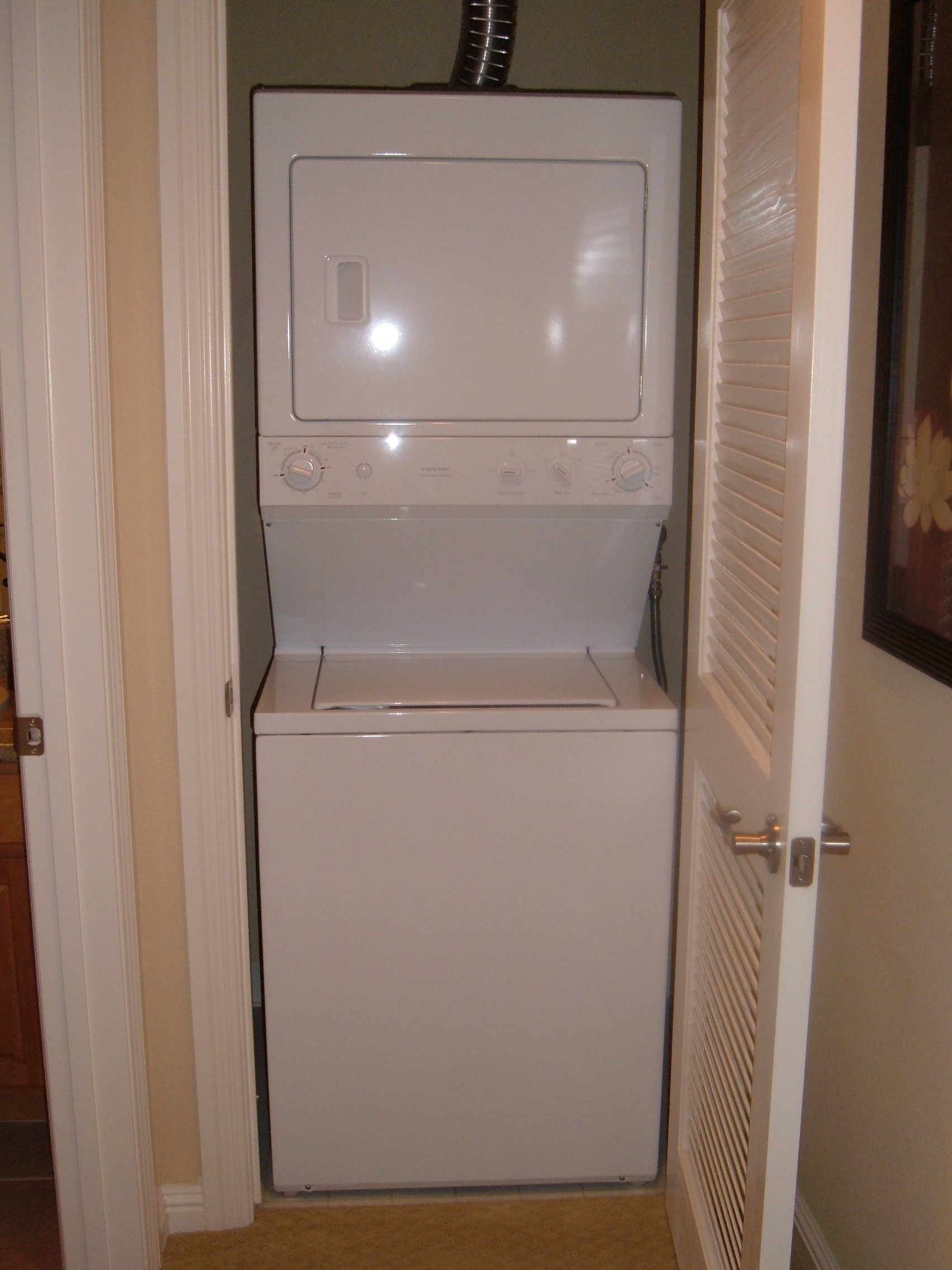 GE Spacemaker Laundry combination washing machine and clothes dryer.